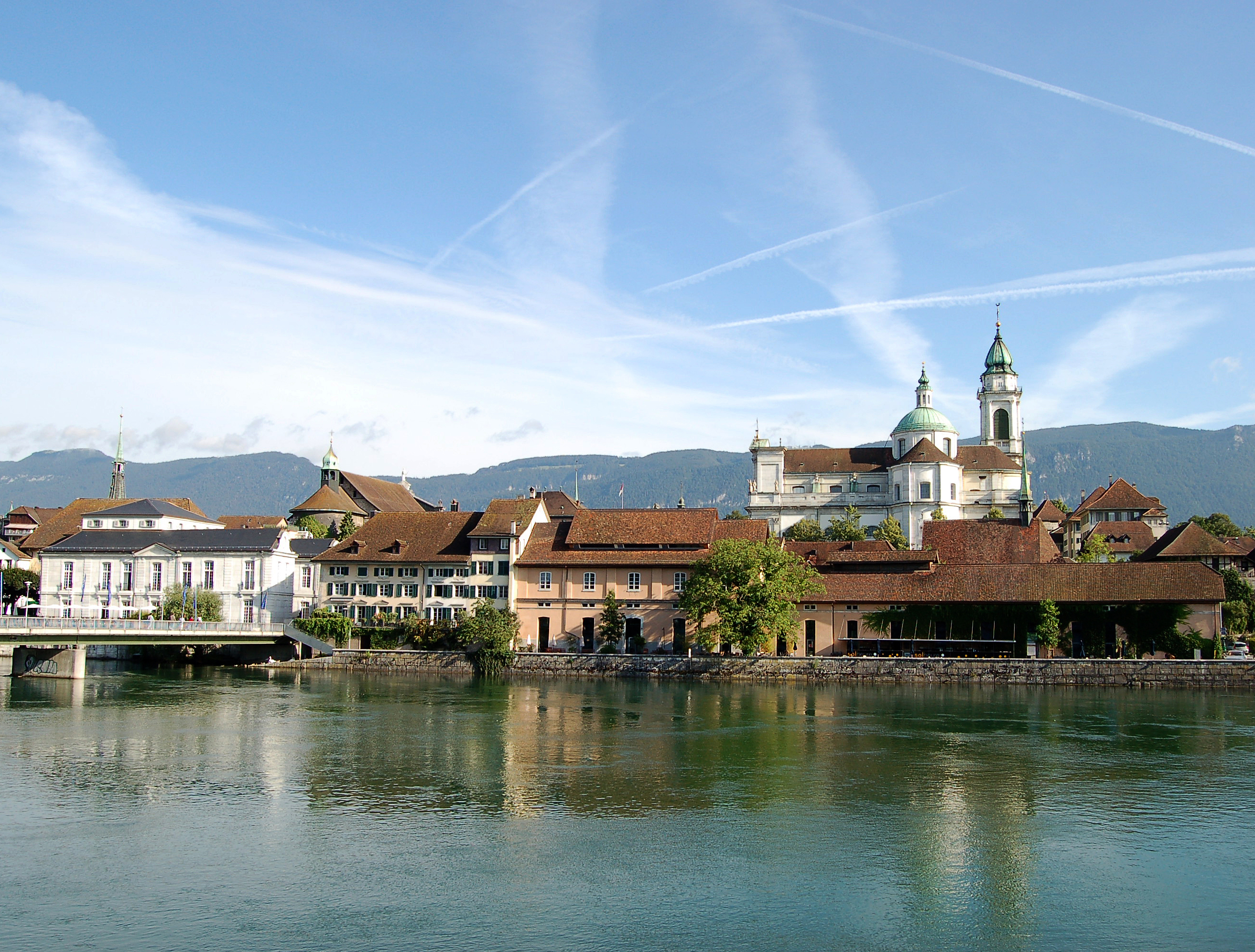 St. Ursen Kathedrale Solothurn